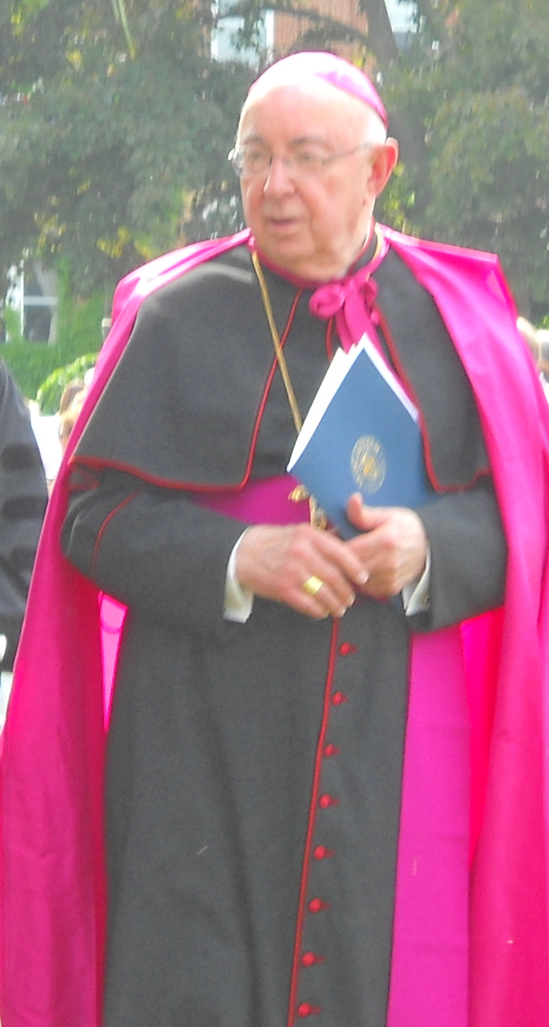 This is the recessional march of Saint Anselm College's Commencement in 2010